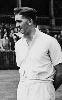 England v The Dominions - Wartime Cricket At Lord's. The Duke of Gloucester meets the England team in front of the pavilion at Lord's cricket ground in London during the fund raising match against The Dominions on 2nd August 1943. The match raised money for the Red Cross Fund and was attended by more than 38,000 people over two days. England won by 8 runs. Anthony Mallett.